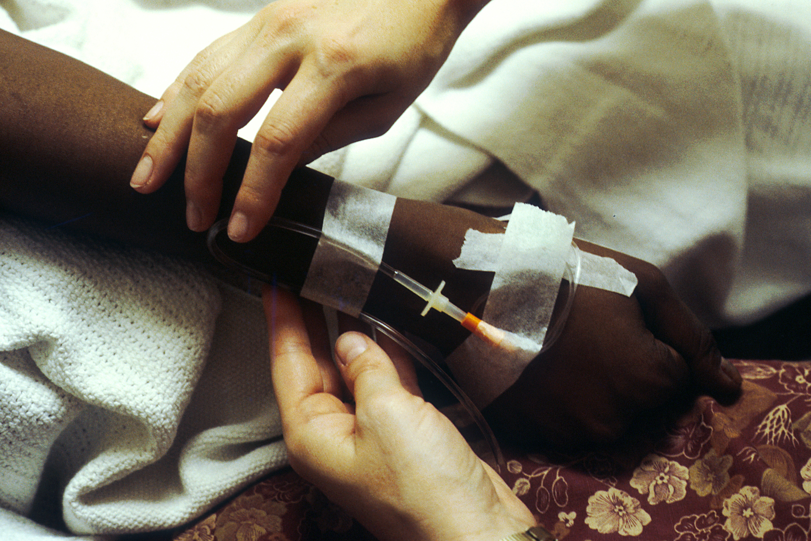 Title Chemotherapy IV Description Seen are two hands manipulating an IV for chemotherapy administration to a black patient. Topics/Categories Treatment, Chemotherapy Type Color, Photo Source National Cancer Institute